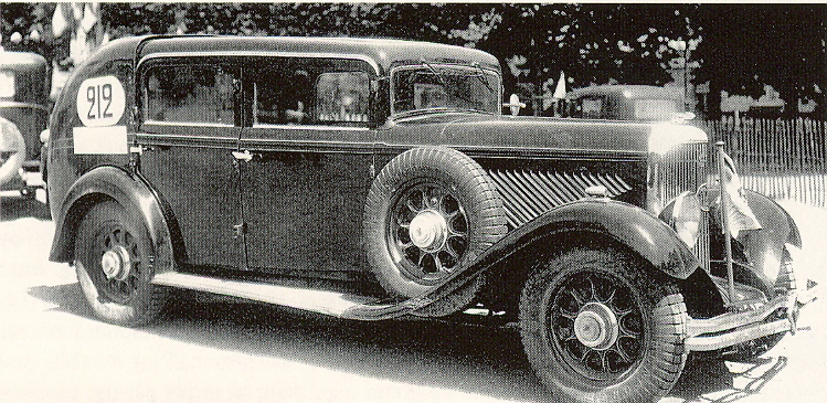 Panhard & Levassor DS X75 with Wood Gazifier (Prototype, 1934)